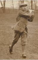 A circa 1907 photo of English professional golfer Thomas Renouf.